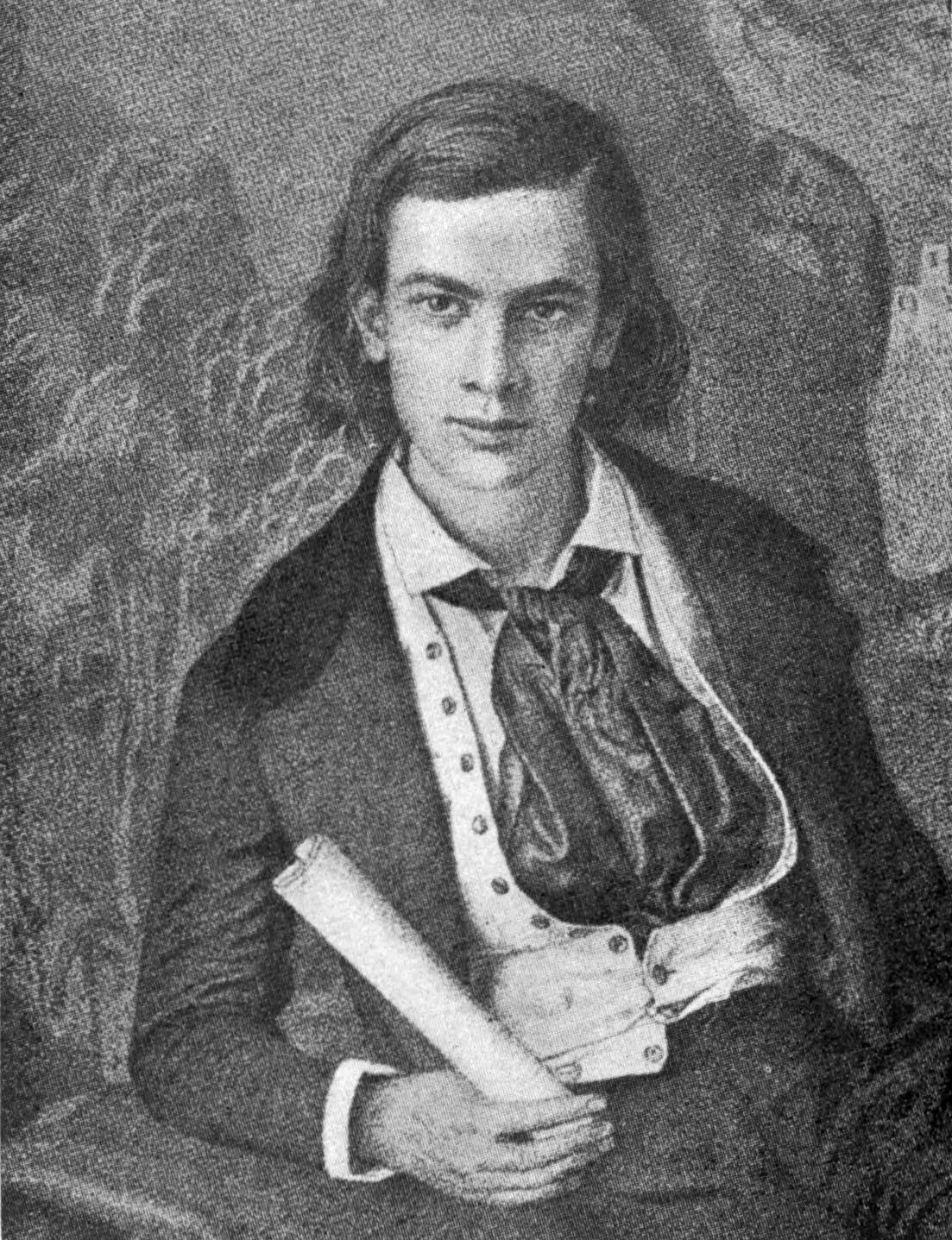 Image of a young George Lippard (1822-1854)